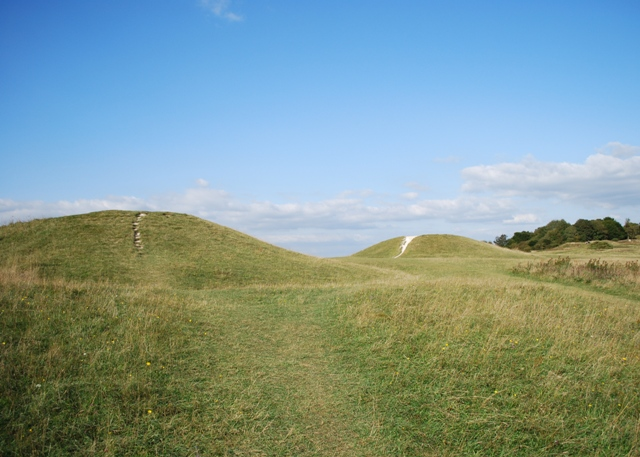 The Devil's Humps Two of the bell barrows on the ridge above Kingley Vale.